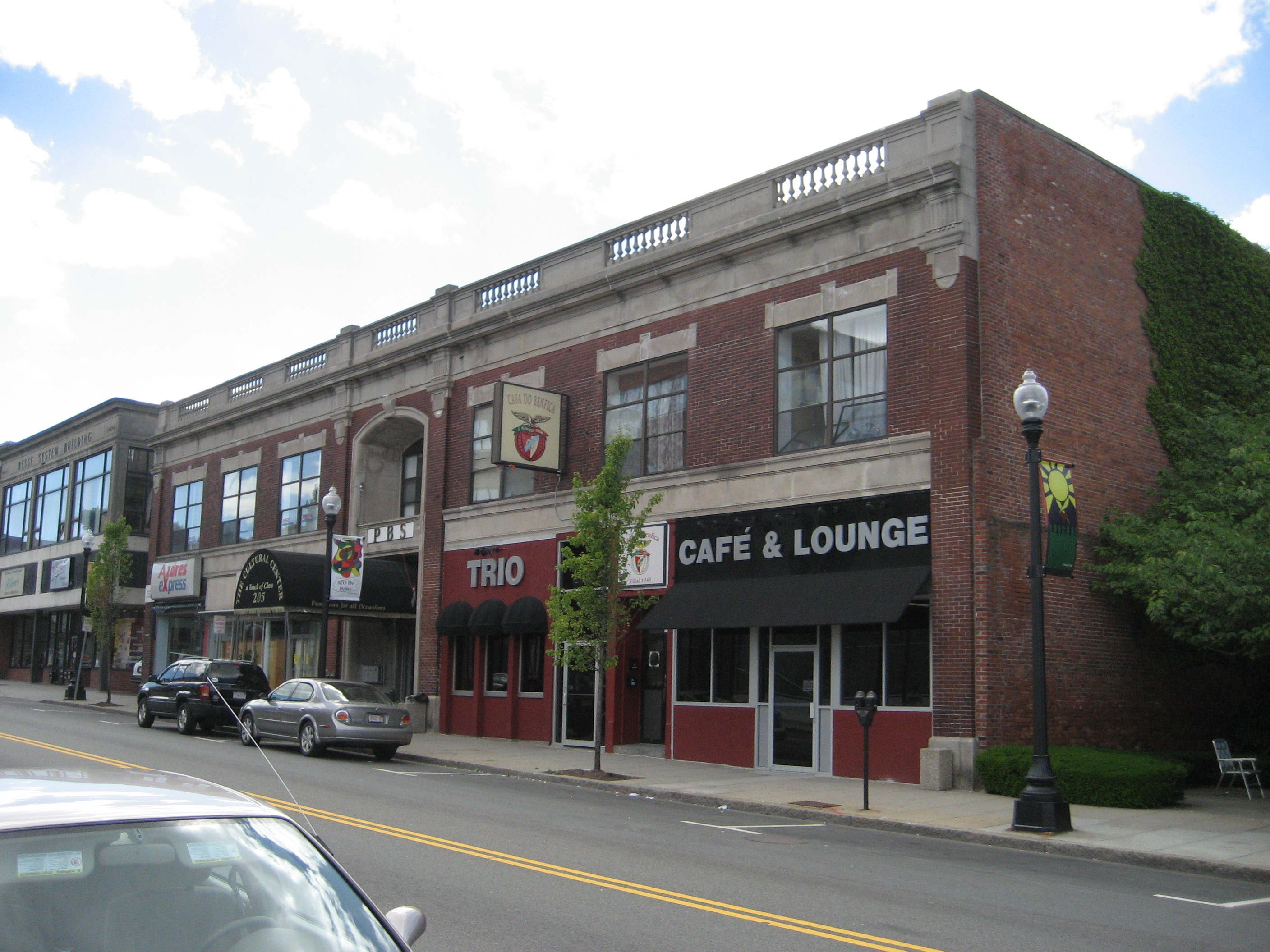 Fall River, Massachusetts: business section of Main Street.